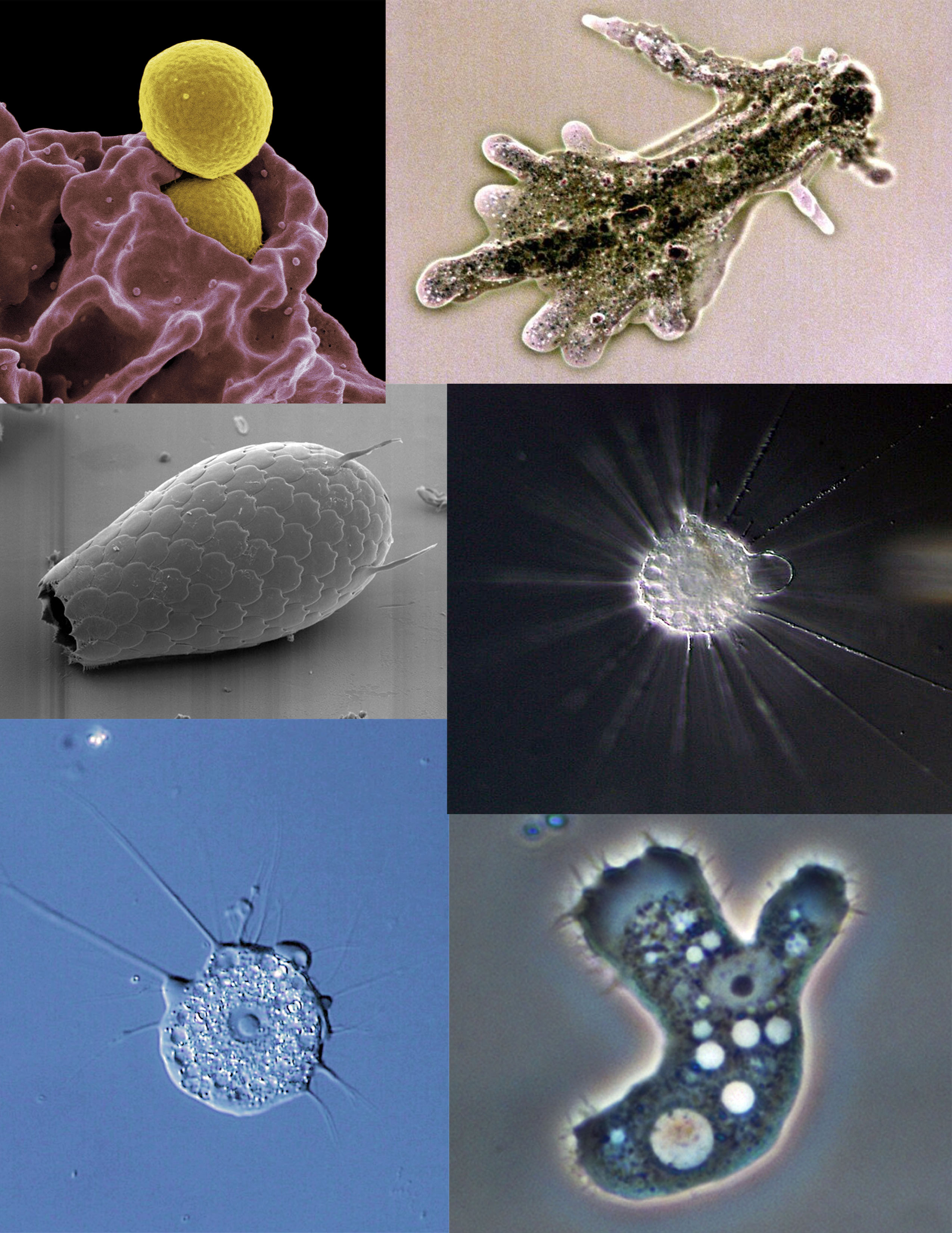 A collage of amoeboid cells, from images on Wikimedia Commons